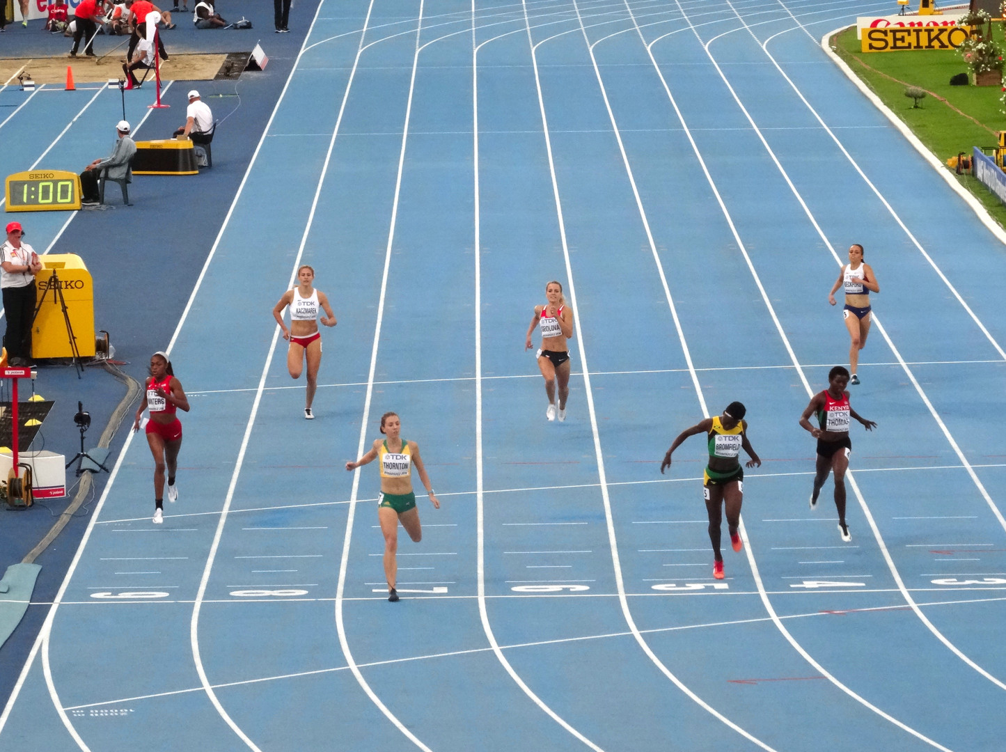 2016 IAAF World U20 Championships in Bydgoszcz, 400m women semi-final